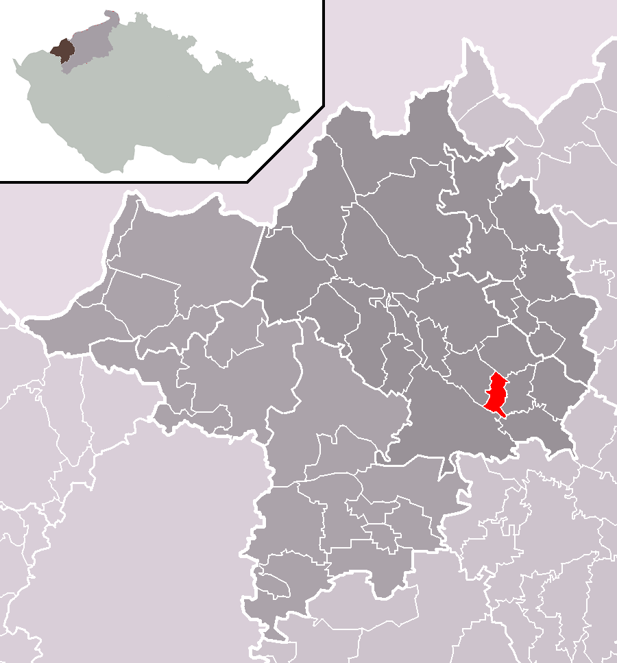 Location of Všehrdy municipality within Chomutov District and administrative area of Chomutov as a Municipality with Extended Competence.